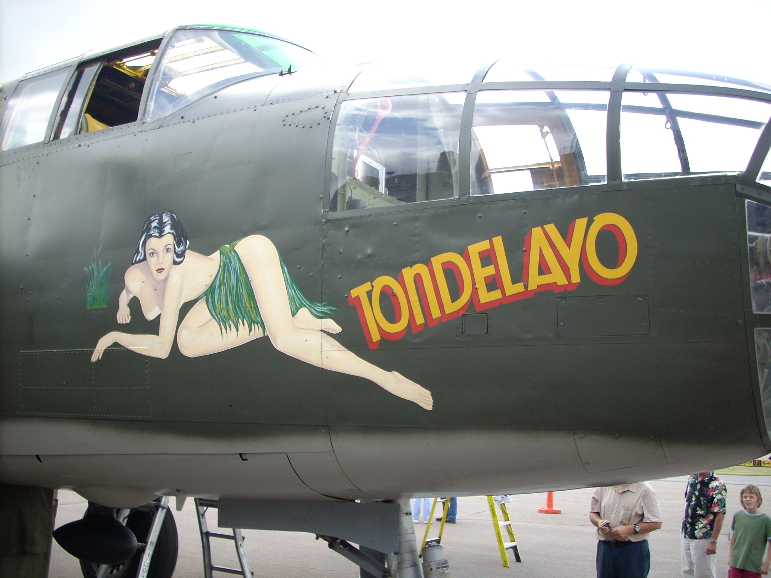 Detail of the nose art on a B-25 Mitchell aircraft, at the Collings Foundation Airshow. Aircraft details: B-25J-15NC c/n 108-32207 44-28932 (N3476G), ex-TB-25J, ex-TB-25N BD-932, ex-air tanker #6, "Tondelayo", Collings Foundation, New Smyrna Beach, FL (A).